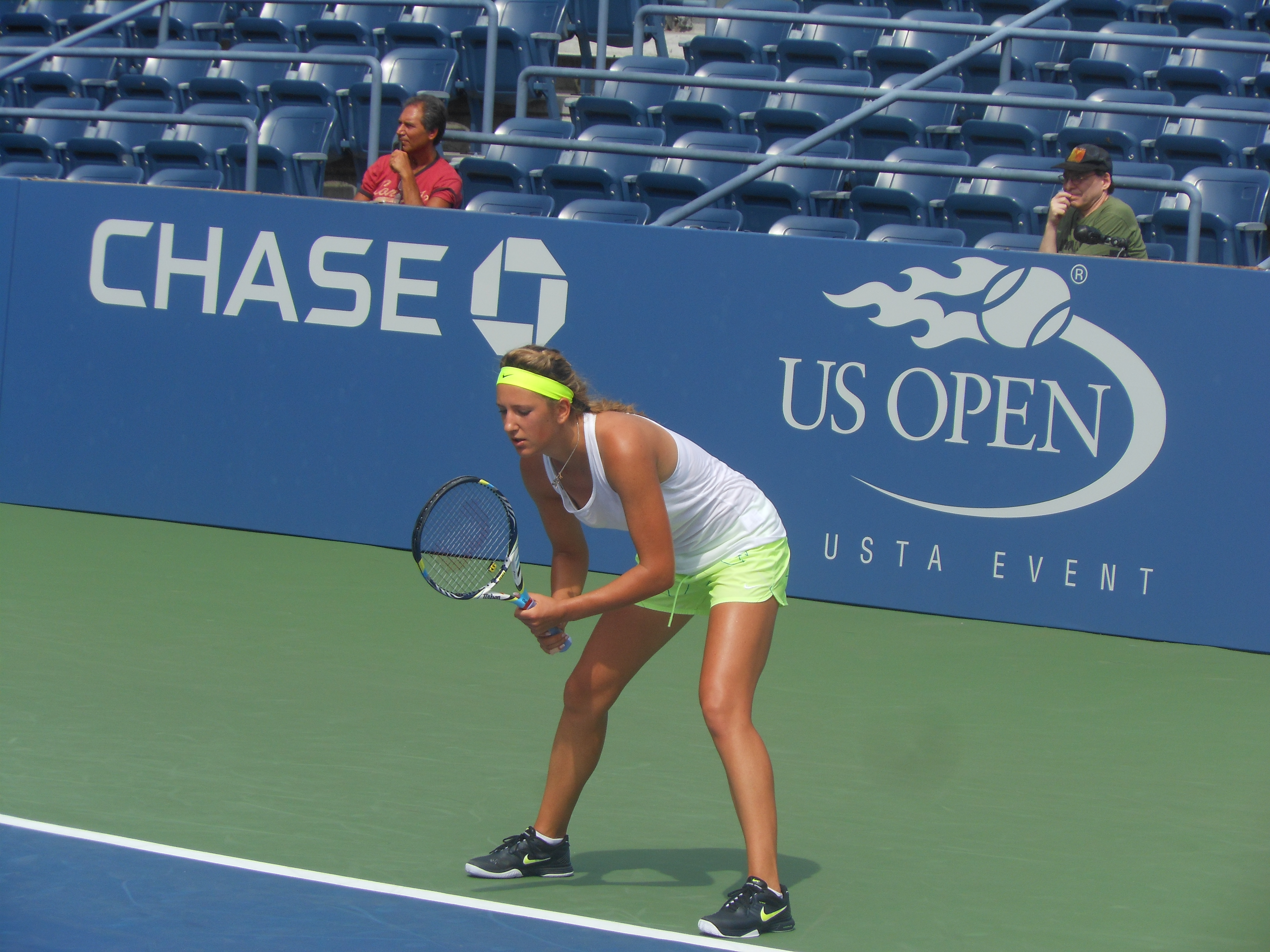 Victoria Azarenka at the 2012 US Open